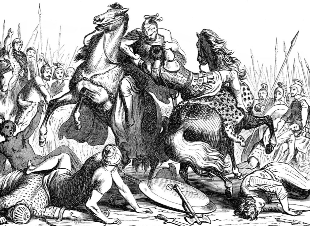 The fight of Eumenes of Cardia against Neoptolemus, Wars of the Diadochi